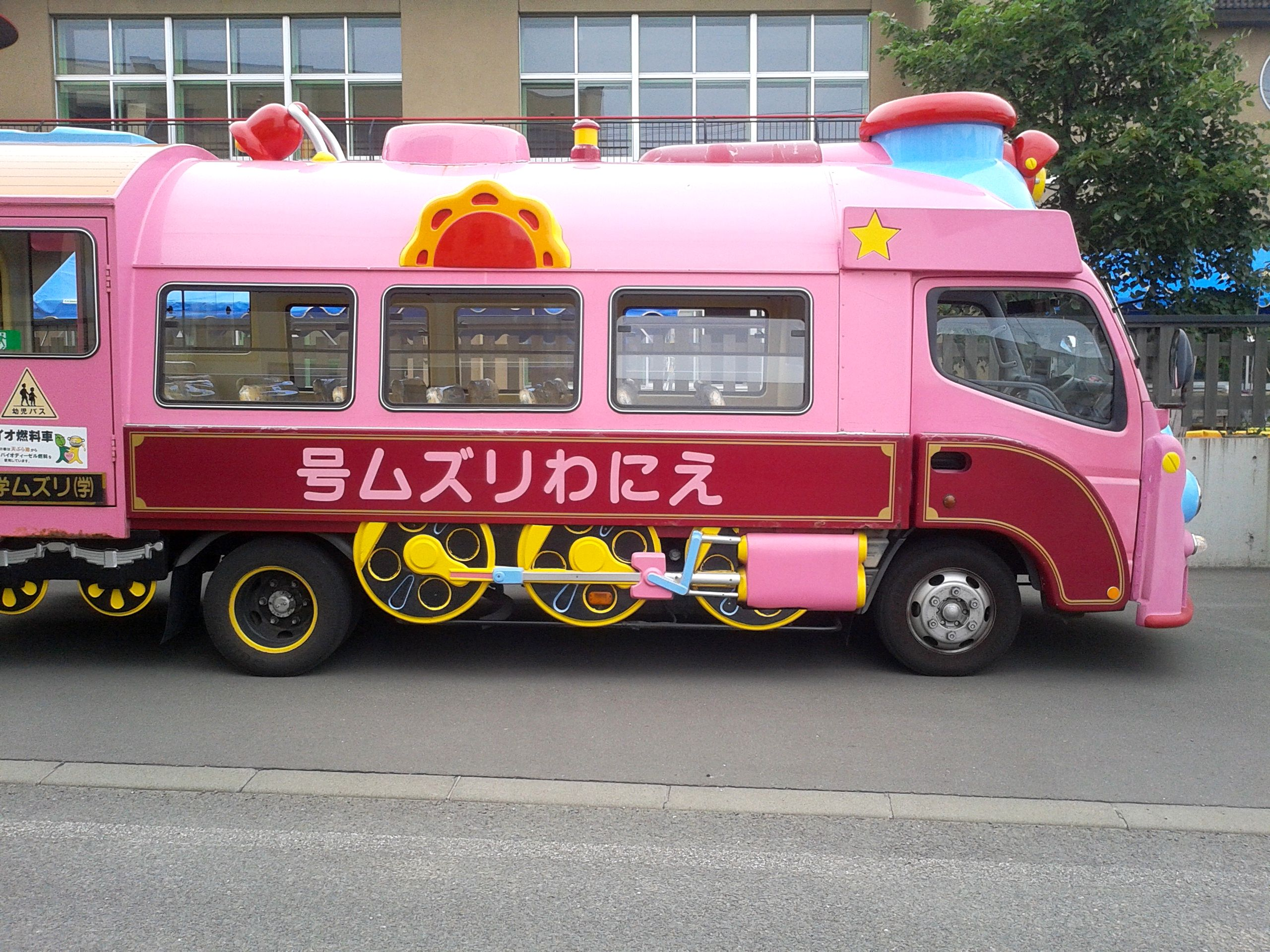 Eniwa Kinder Garden special bus "Eniwa Rhythm Car" outside of Eniwa Kinder Garden in Eniwa, Hokkaido